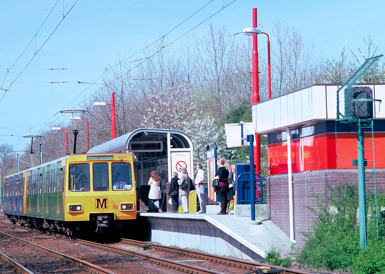 Kingston Park station on the Tyne and Wear Metro. The view north west to Platform 1, where Metrocar No. 4062 forms the front of a train bound for South Shields station.